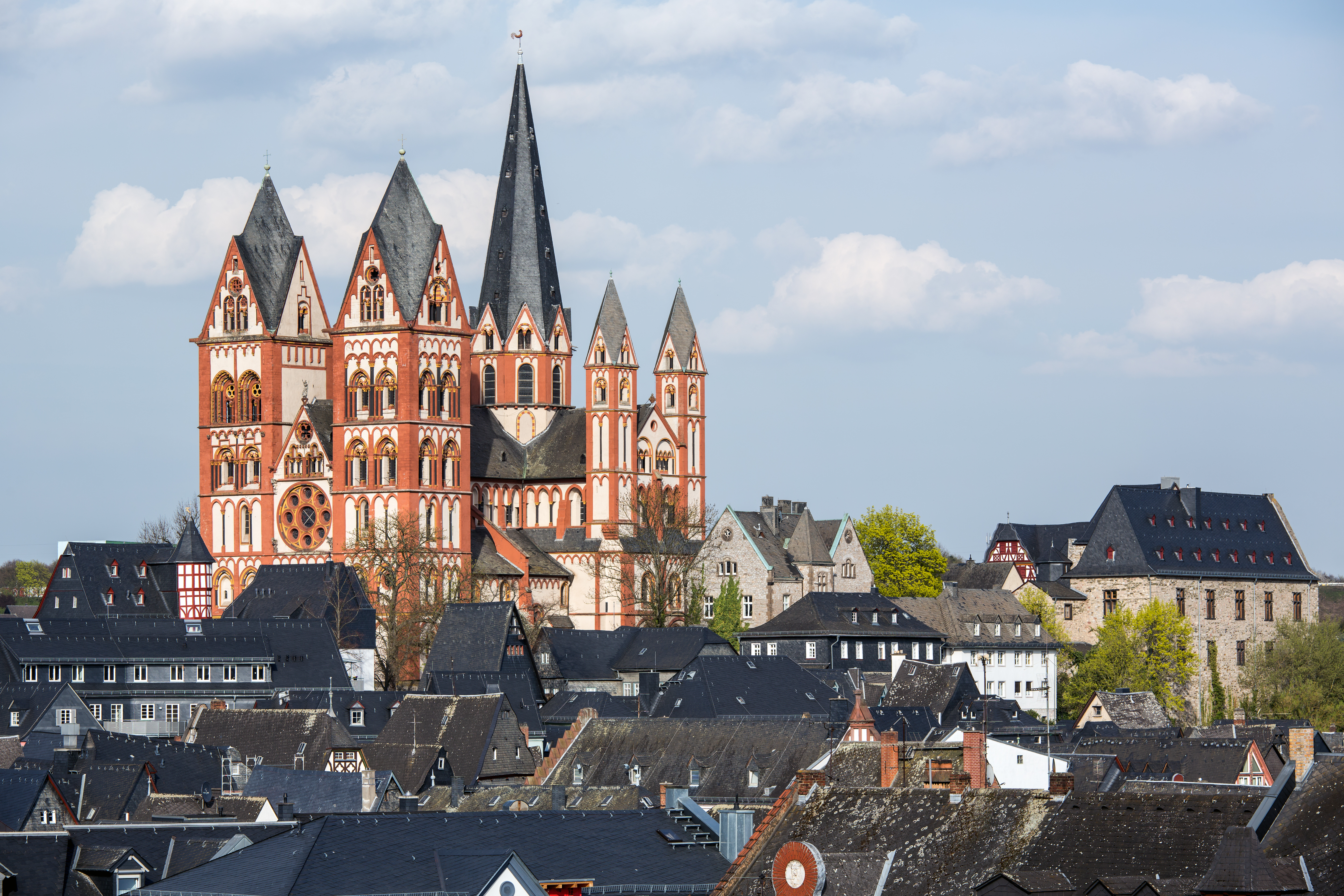 Limburg an der Lahn: Cathedral and a part of the Old Town as seen from the southwest